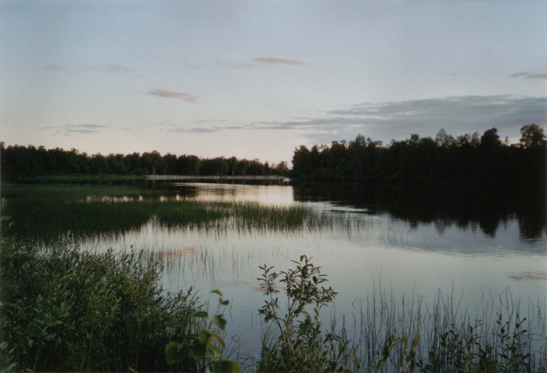 11p.m. at the River Kaamanen near Inari